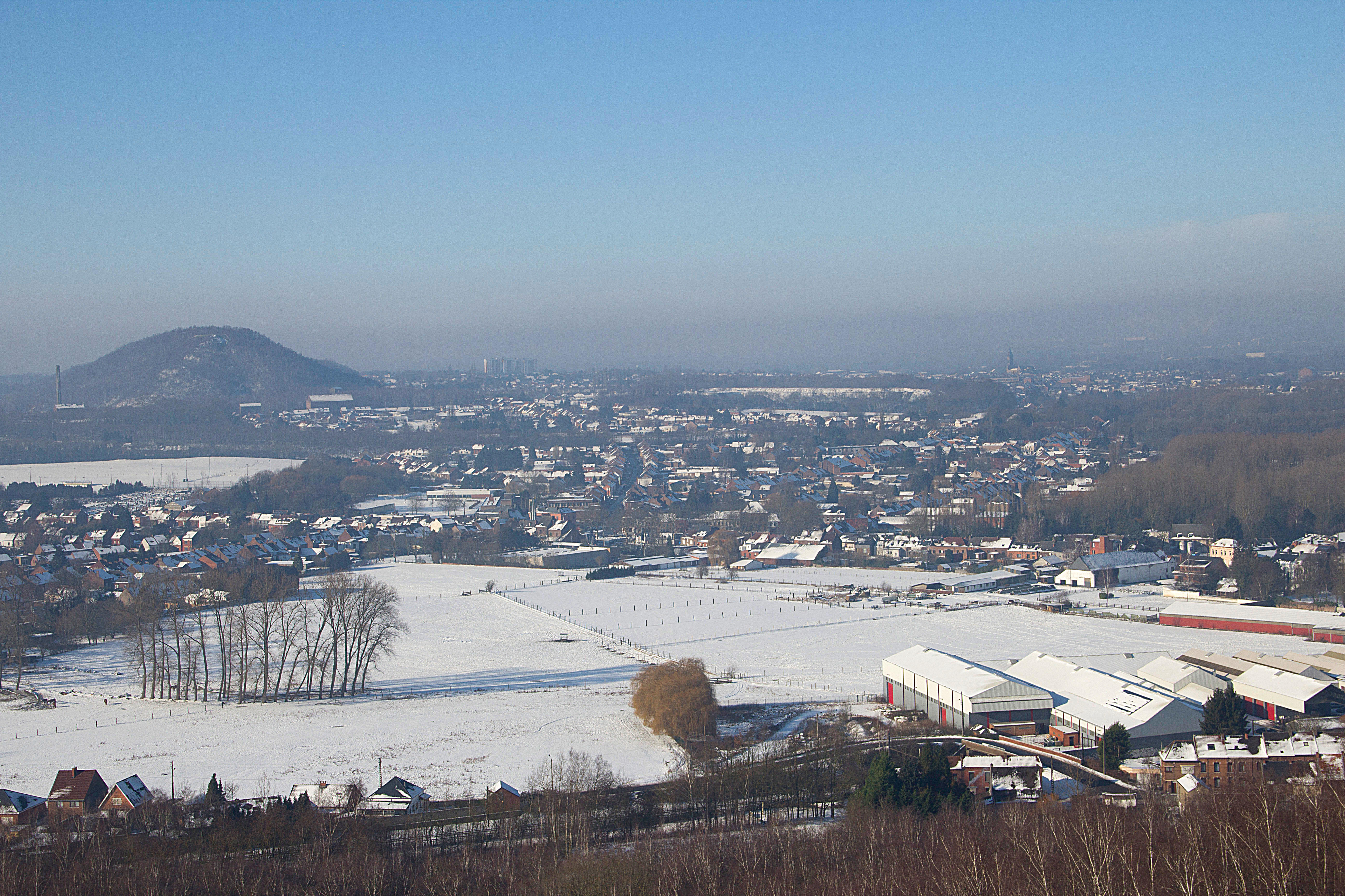 Cuesmes (Belgium), the village seen from the Mount Héribus.